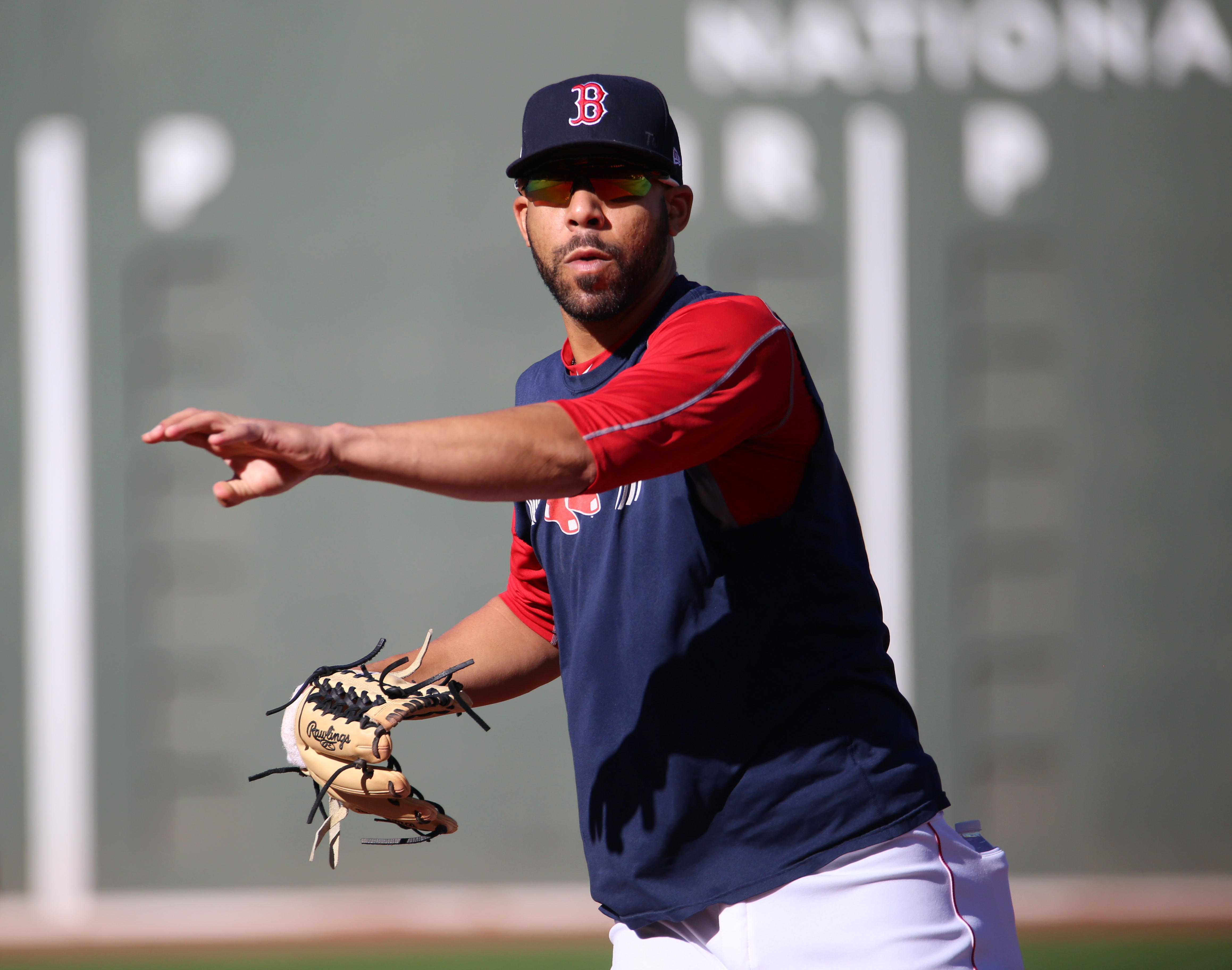 Red Sox pitcher David Price warms up before ALDS Game 3 at Fenway Park.